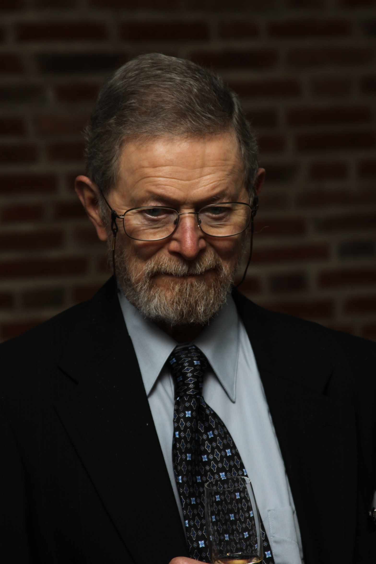 George E. Smith